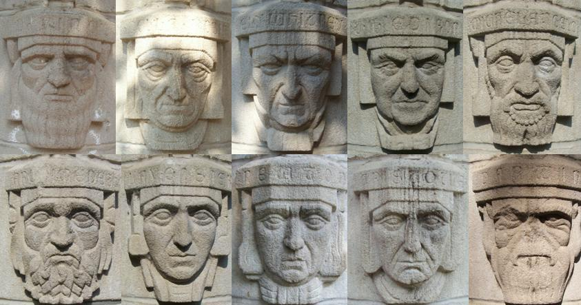 These are the eight faces engraved in stone on Brittain Hall's Western pillars. The faces on the top row from left to right are Leonardo DaVinci, Luca della Robbia, Eli Whitney, Thomas Edison, and Michaelangelo. The faces on the bottom row from left to right are Archimedes, Antoine Lavoisier, Isaac Newton, Aristotle, and Charles Darwin. (user:Excaliburhorn, self-taken, 2007)